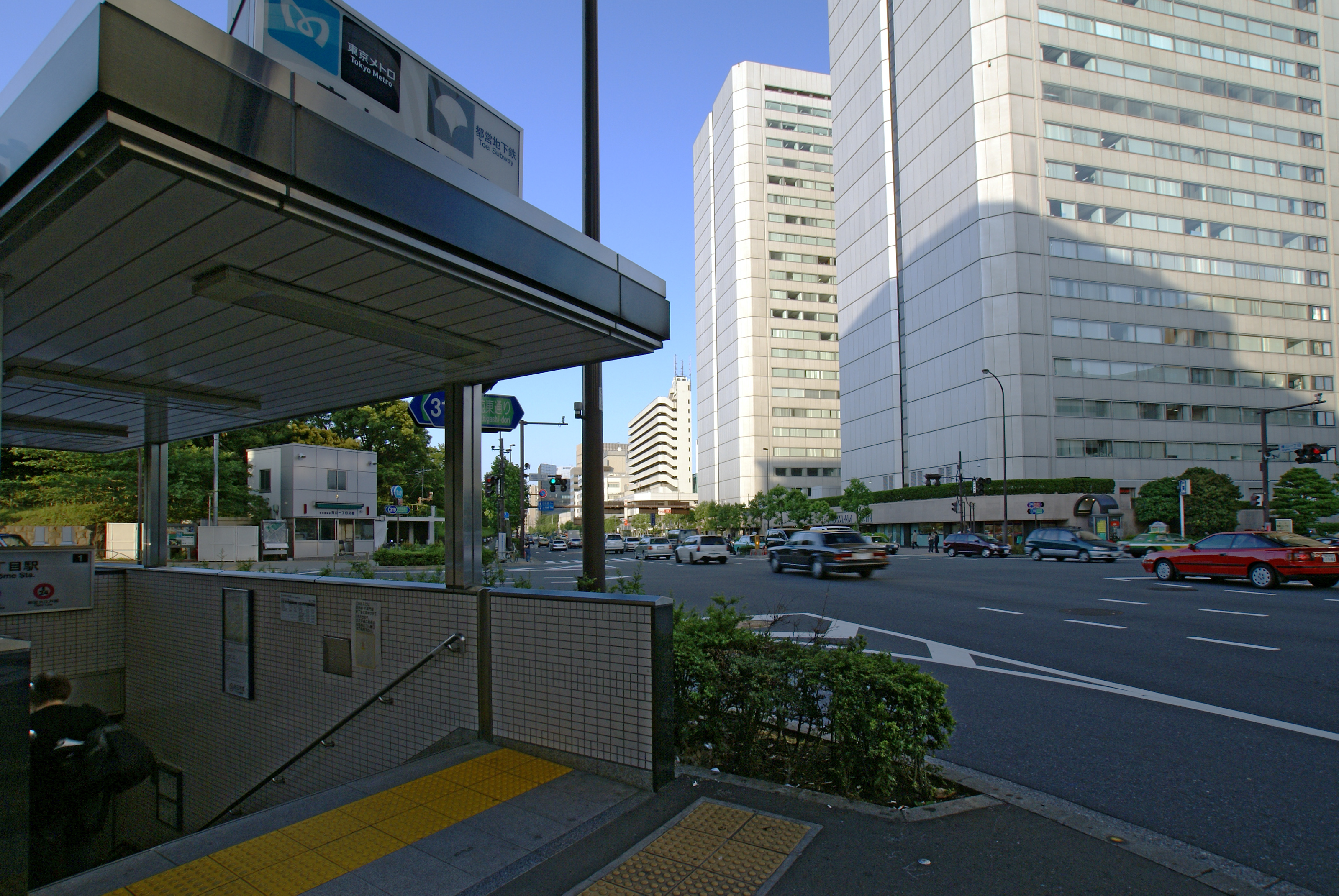 Aoyama1chome station, Tokyo, Japan